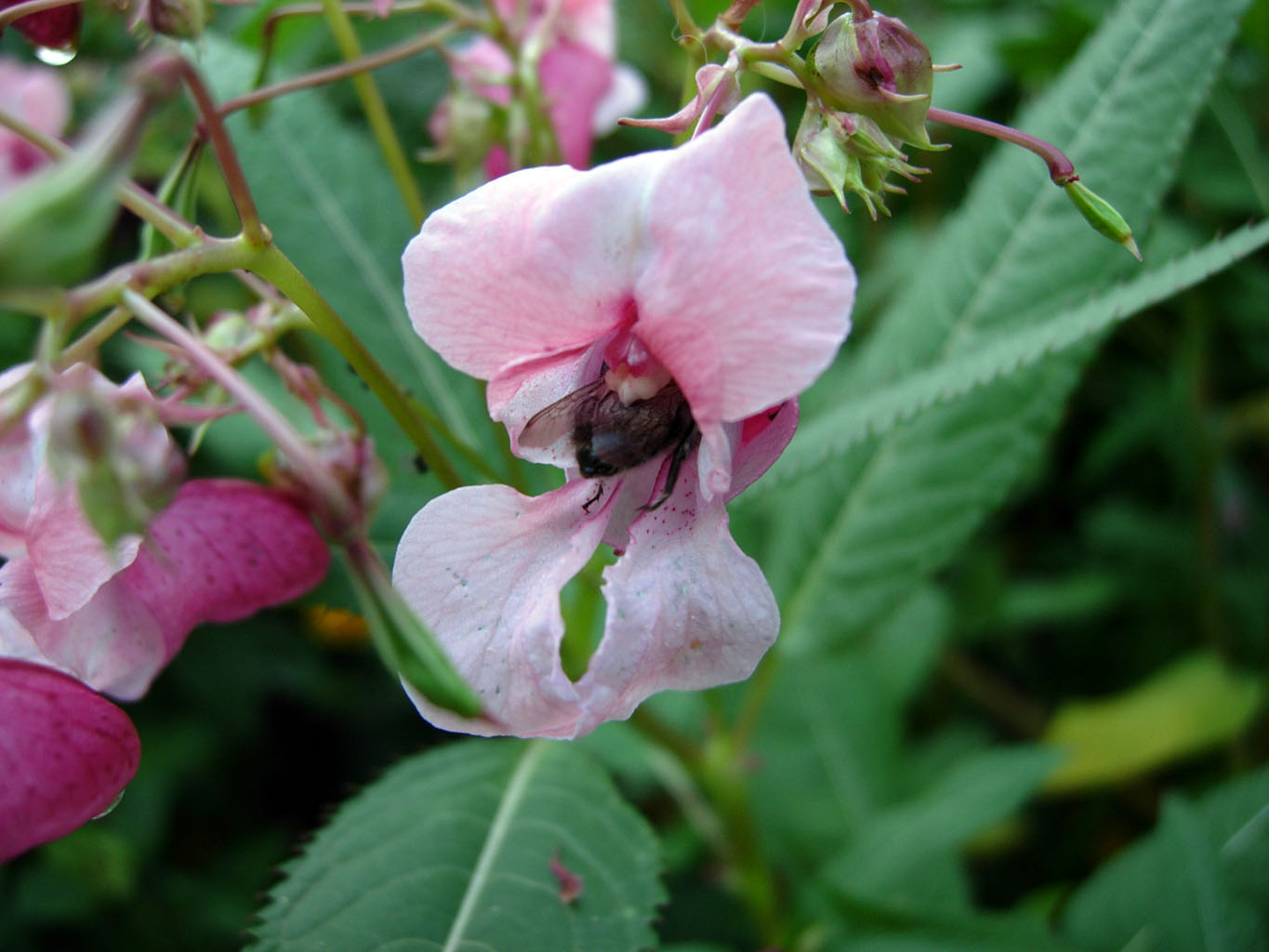 Impatiens glandulifera I. noli-tangere